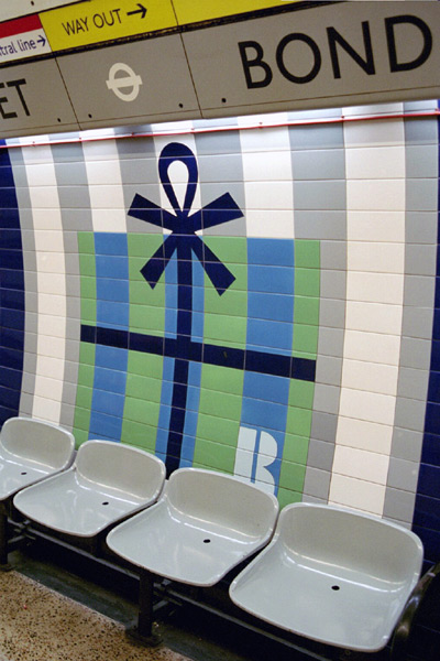 Unique tilework at Bond Street station, perhaps representing a wrapped gift in the Bond Street area shopping district.